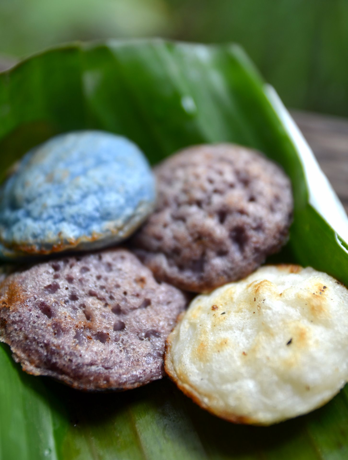 Khanom khrok (Thai script: ขนมครก): small coconut hotcakes. They are made on a special cast-iron pan with indentations and two halves are eventually stuck to one another to form the finished mini-pancake. They can have different fillings/additives: sometimes sweet, sometimes savoury such as chives giving the sweet khanom khrok a surprising taste sensation.